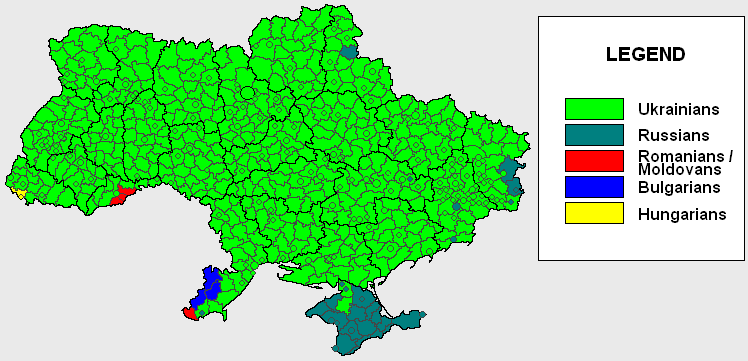 The most numerous groups by nationality in Ukrainian rayons in the year 2001.